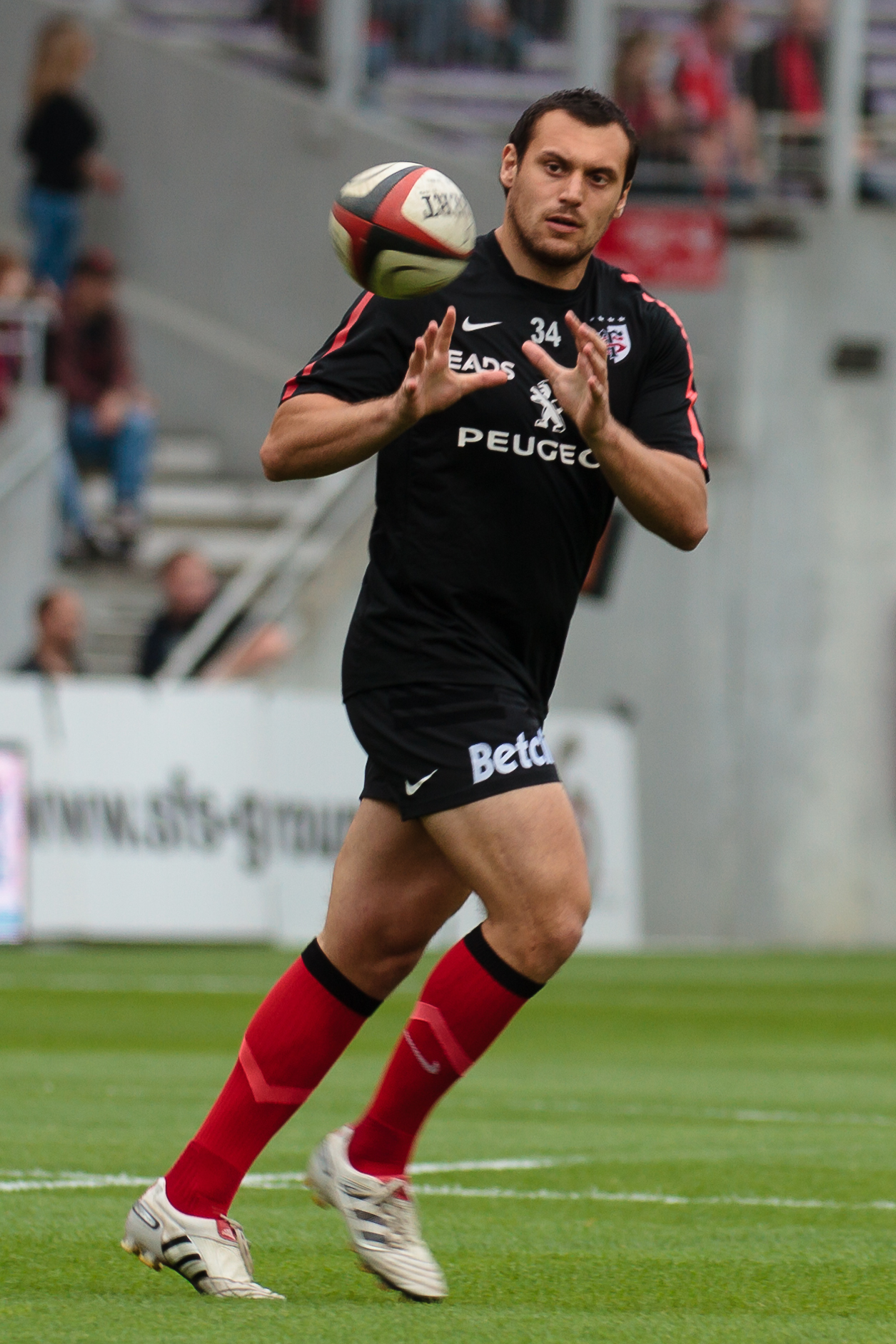 Lionel Beauxis during warm-up session of match between Stade toulousain and Montpellier HR on May 12th, 2012.